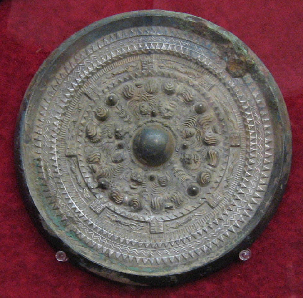 Bronze Mirror in Ancient Japan, Kofun Period. 三角縁獣文帯四神四獣鏡（椿井大塚山古墳出土）